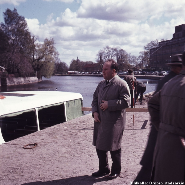 Harald Aronsson, a politician in Örebro, Sweden